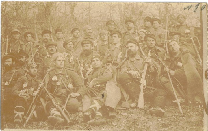 IMRO voivodi congress - at middle Pancho Mihailov, right to him Lazar Velkov - Divlianets, six on third line - Shaban Obleshkovski, in front of him - Grigor Hadzhikimov